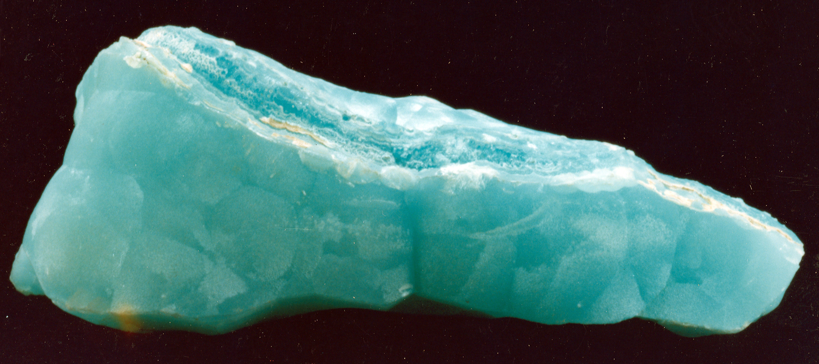 Smithsonite - Locality: Kelley Mine, Soccorro County, New Mexico - Mineral Specimens C\01645